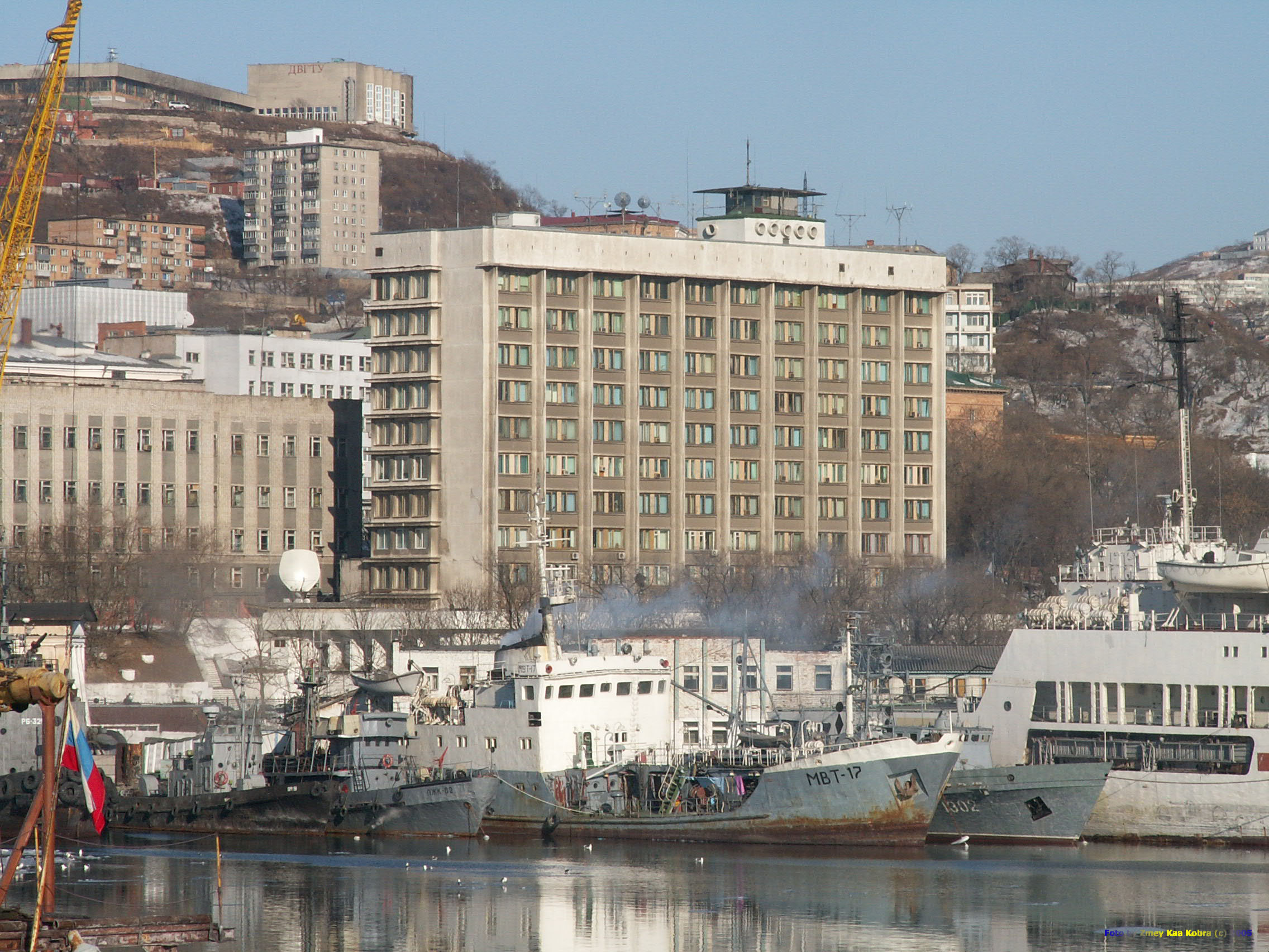 Headquarters of the Russian Pacific Fleet in Vladivostok